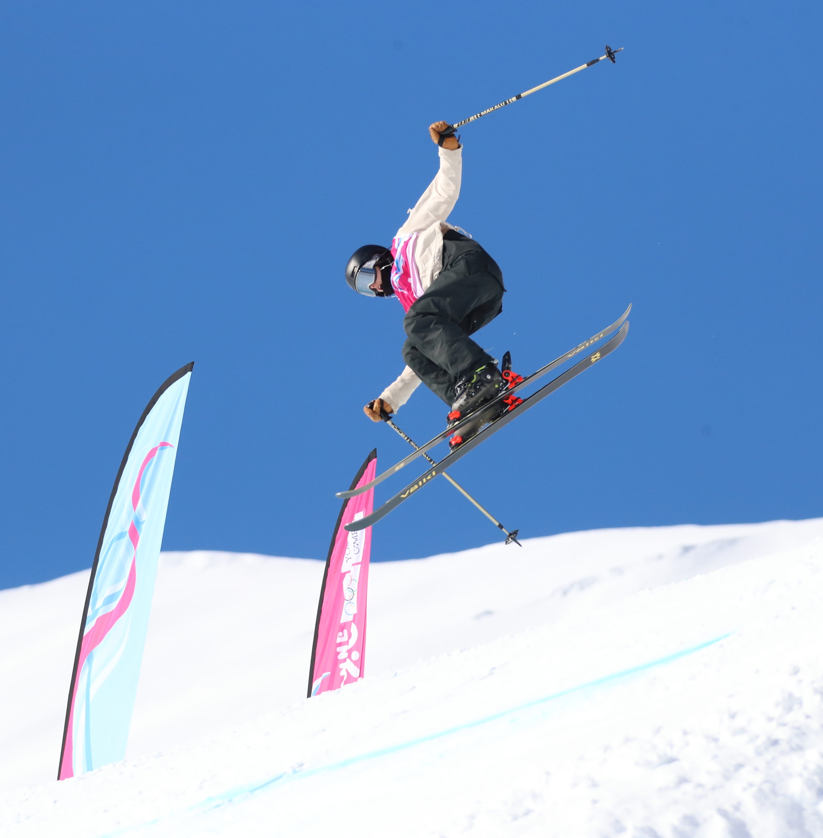 2nd final run of Freestyle skiing – Women's Freestyle Slopestyle at the 2020 Winter Youth Olympics in Lausanne on 18 January 2020.